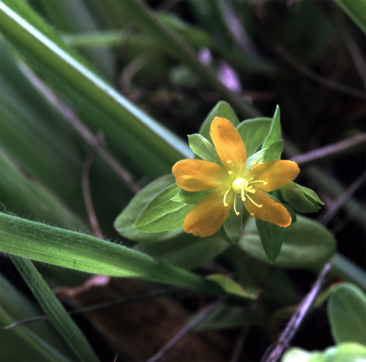 Hypericum anagalloides at Humboldt Bay National Wildlife Refuge Complex, California, USA